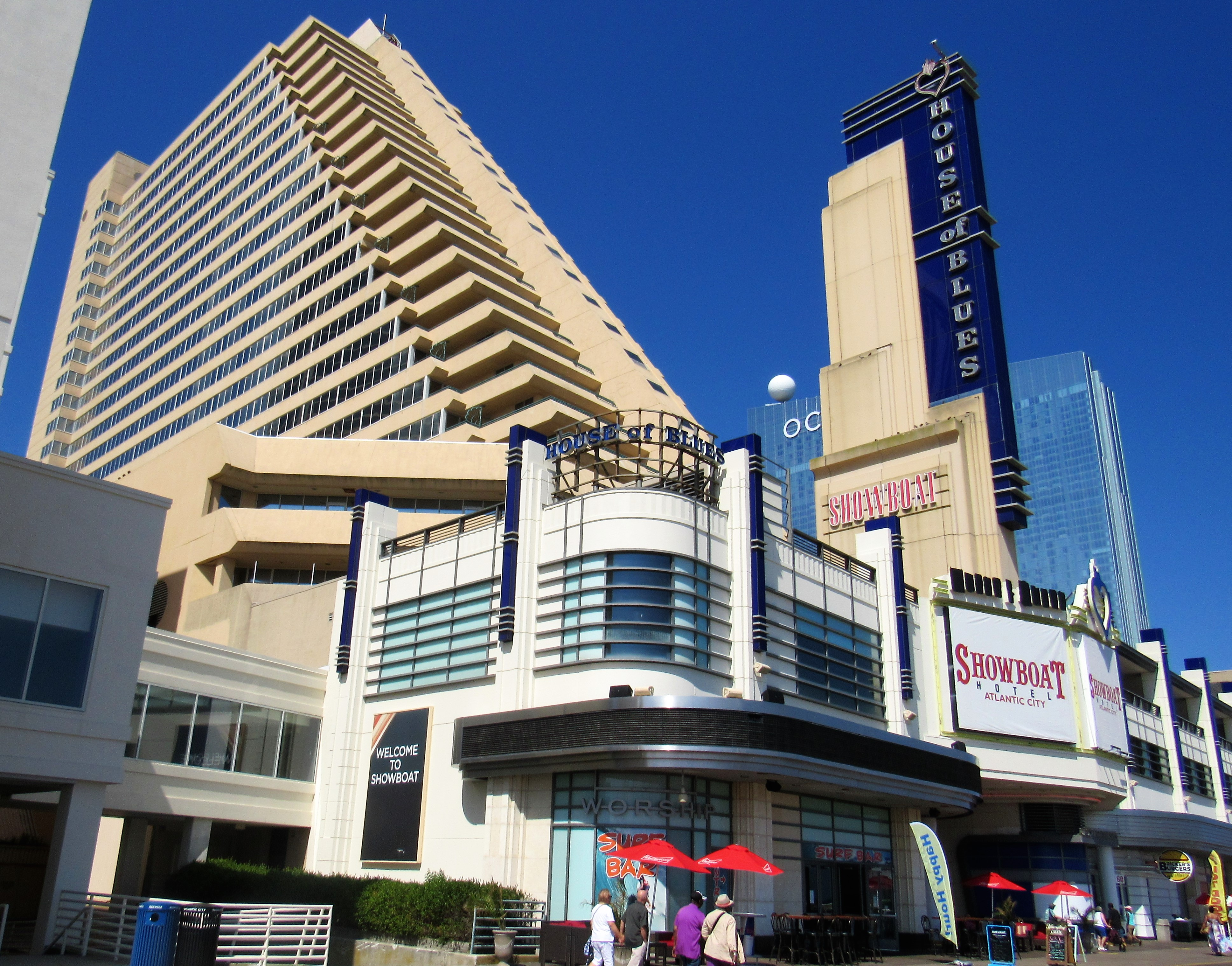 Showboat Hotel and the House of Blues in Atlantic City, New Jersey.